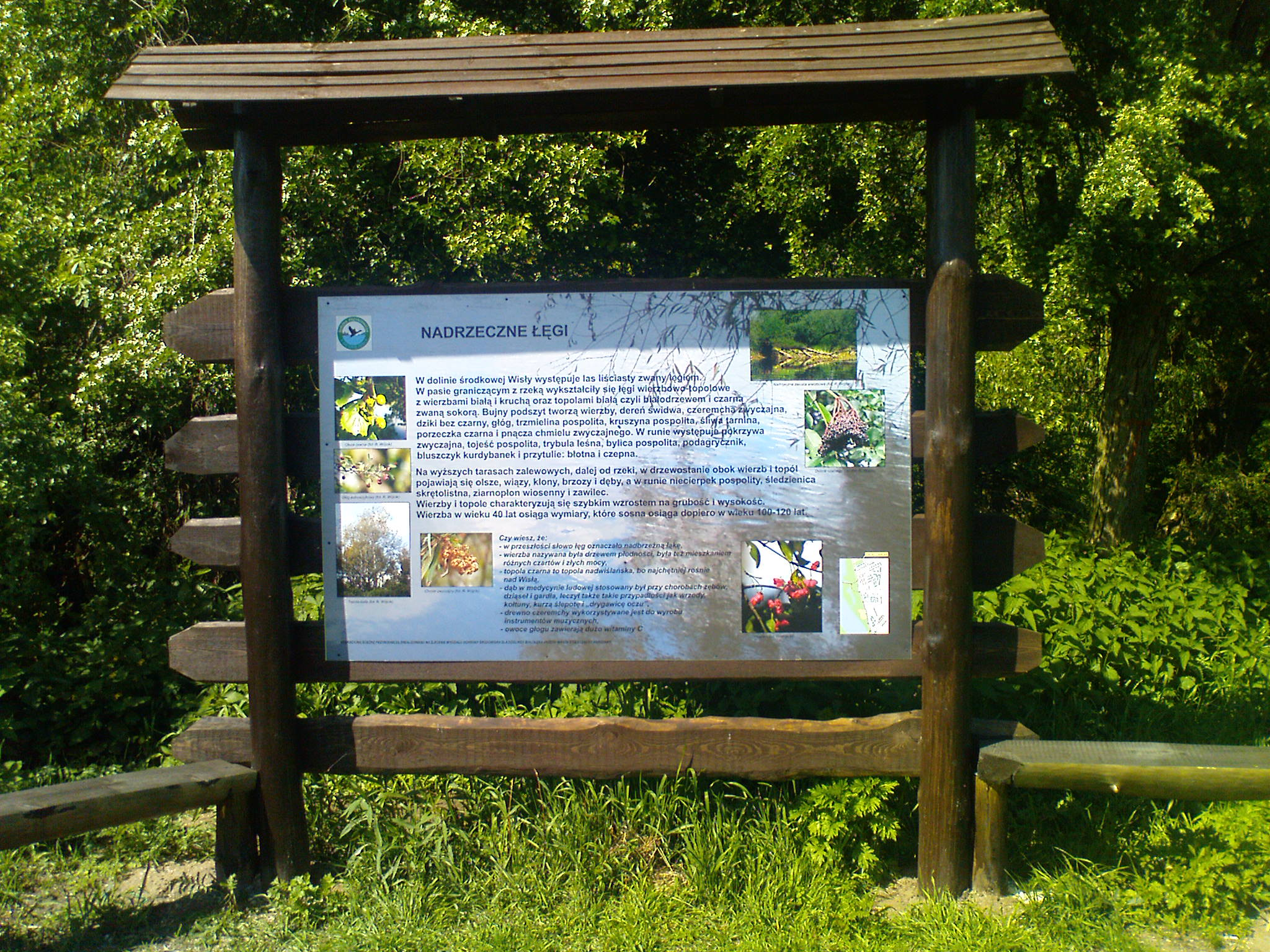 Nowodwory-Bialoleka - information board